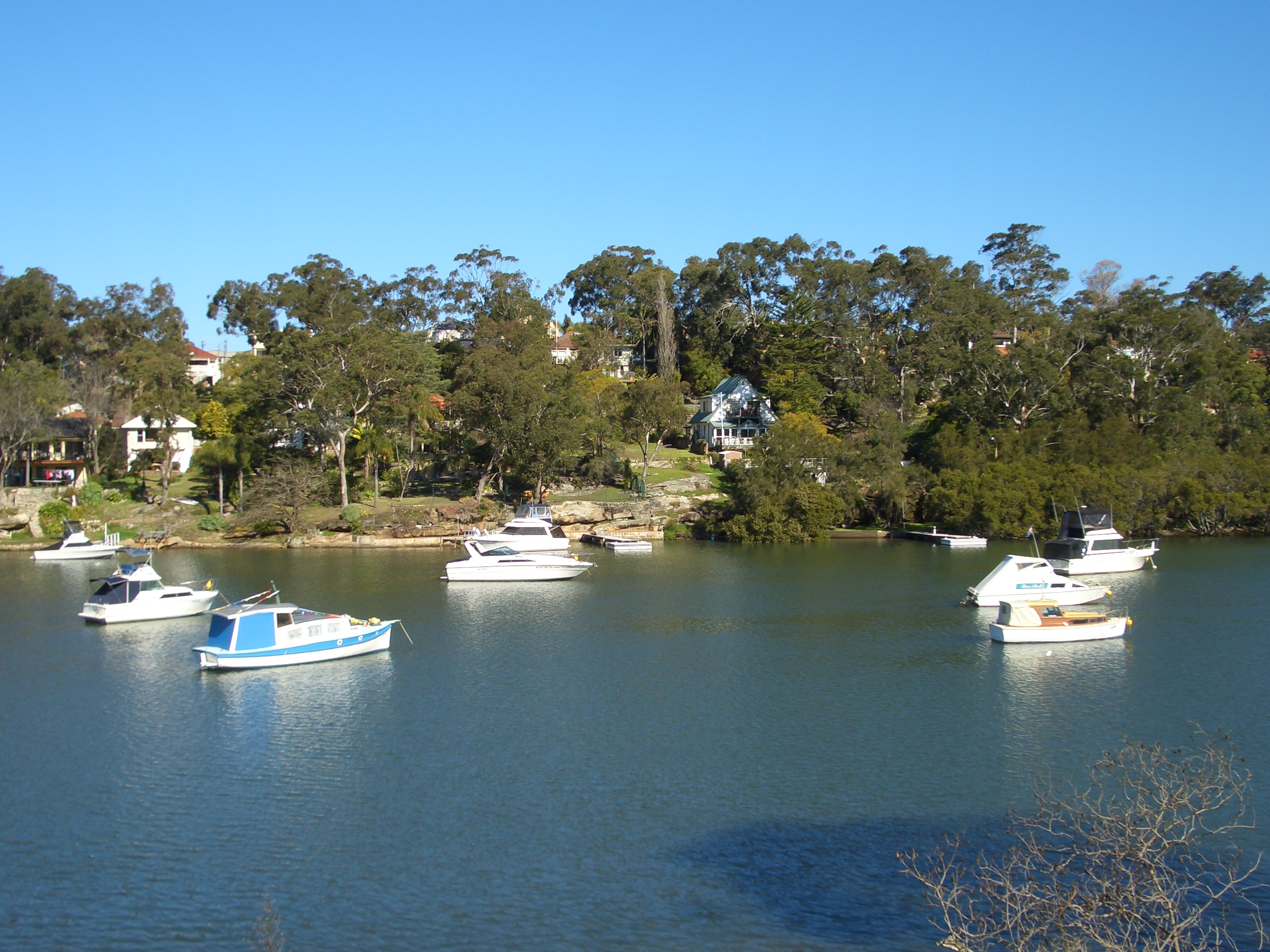 Connells Point, Sydney, Australia. I took this photo on the 14th August 2006. J Bar 06:08, 17 August 2006